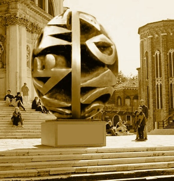 Vèneto: The Egg of Universal Love